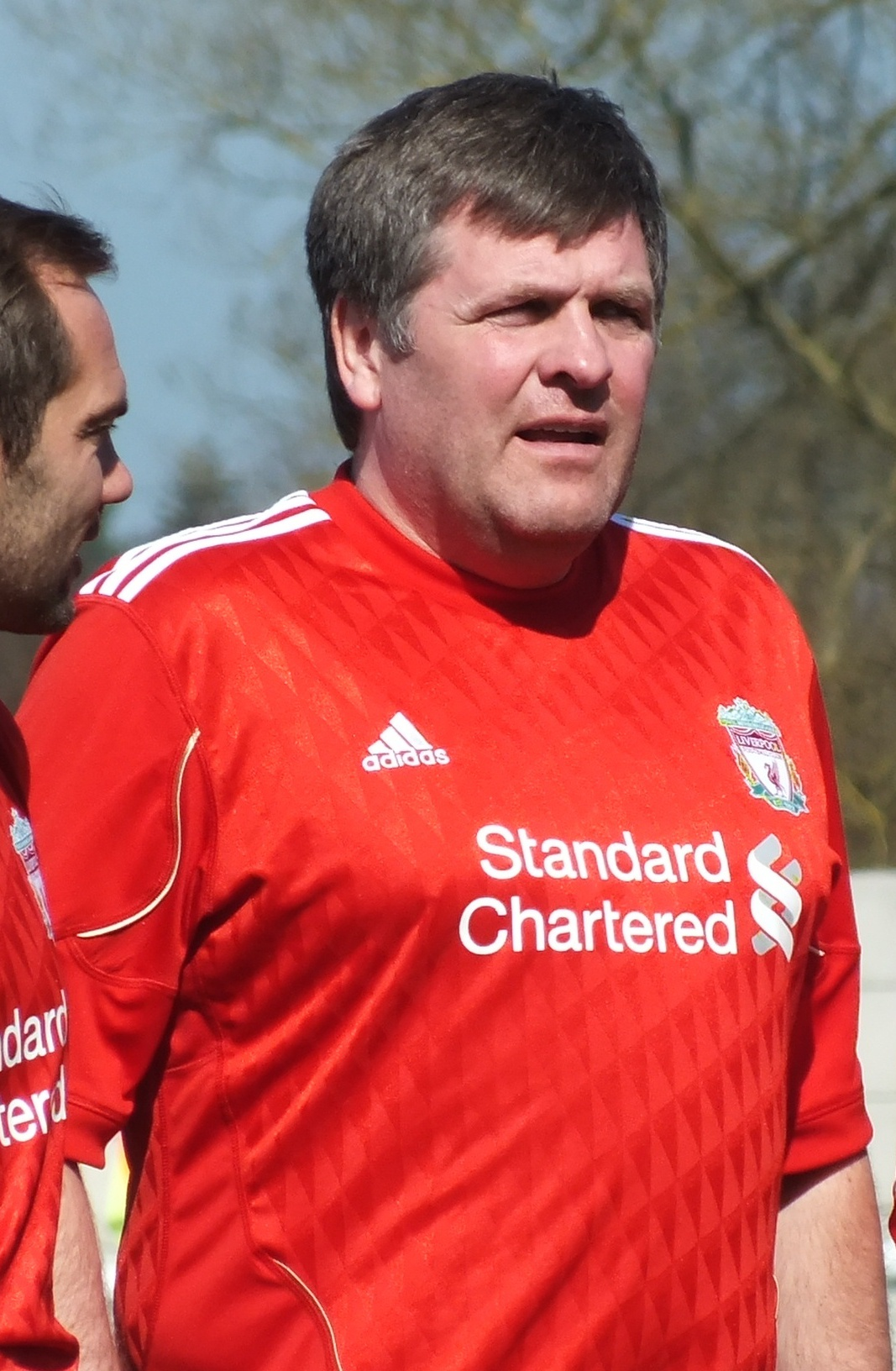 Jan Molby playing in charity match.